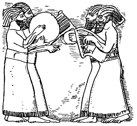 An illustration from the Encyclopaedia Biblica, a 1903 publication which is now in the public domain. Fig. 24 for article "Music". Image of an Assyrian quartet - two lyres, a drum, and cymbals